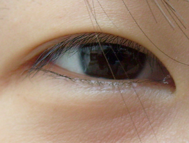 typical epicanthic fold, at a Korean young girl